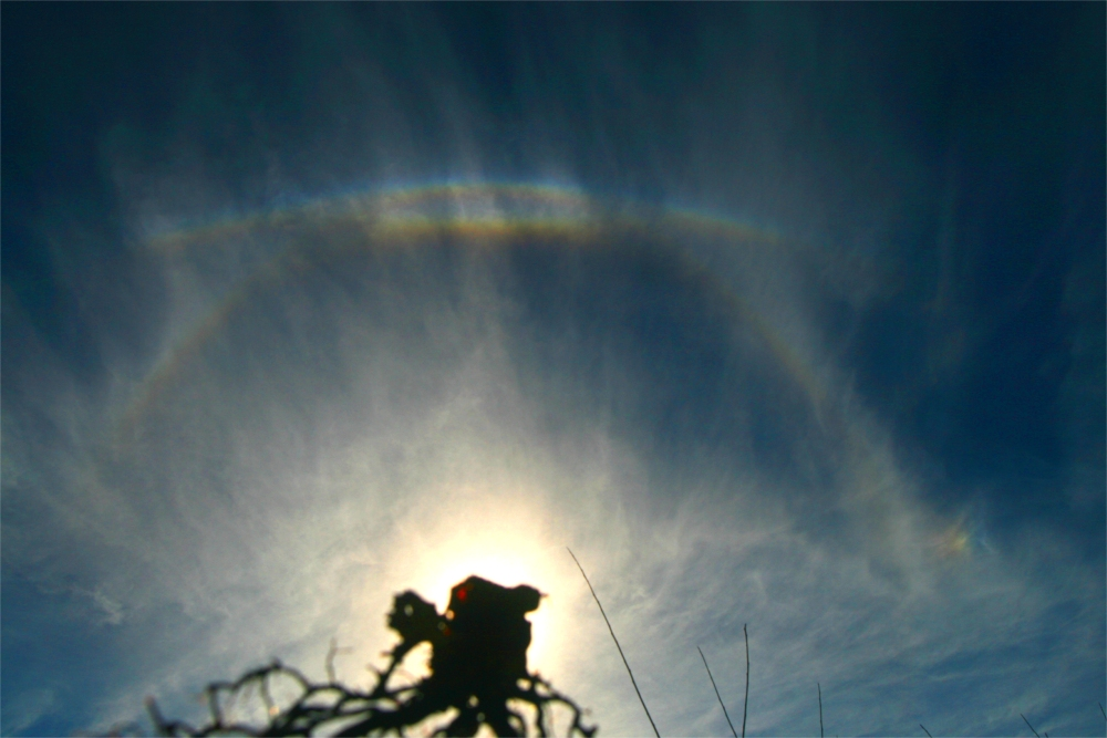 Complex halo display in San Francisco. The explanation of the image provided by atmospheric optics expert Les Cowely